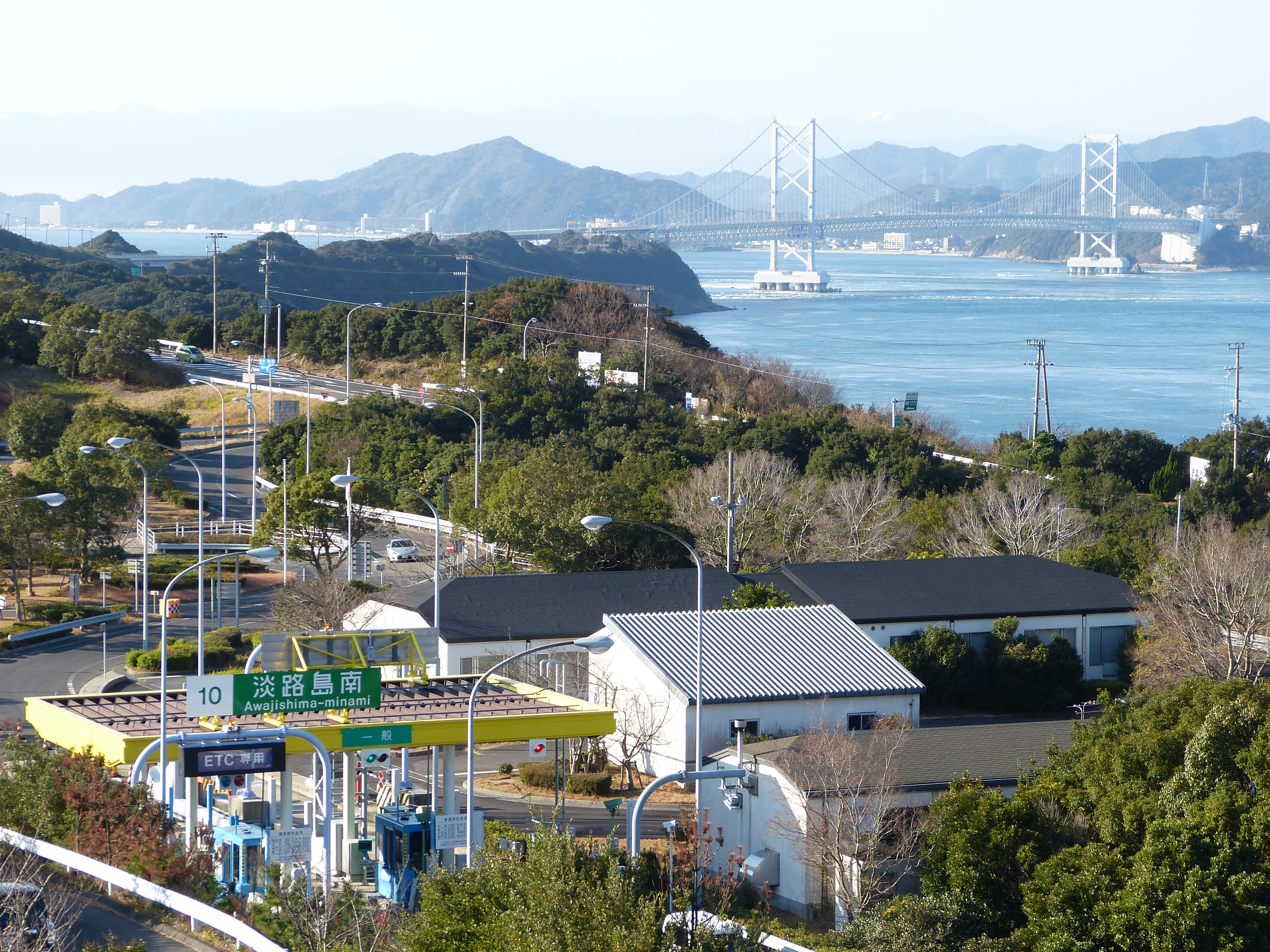 Awajishima-minami Inter Change, Hyogo Prefecture, Japan